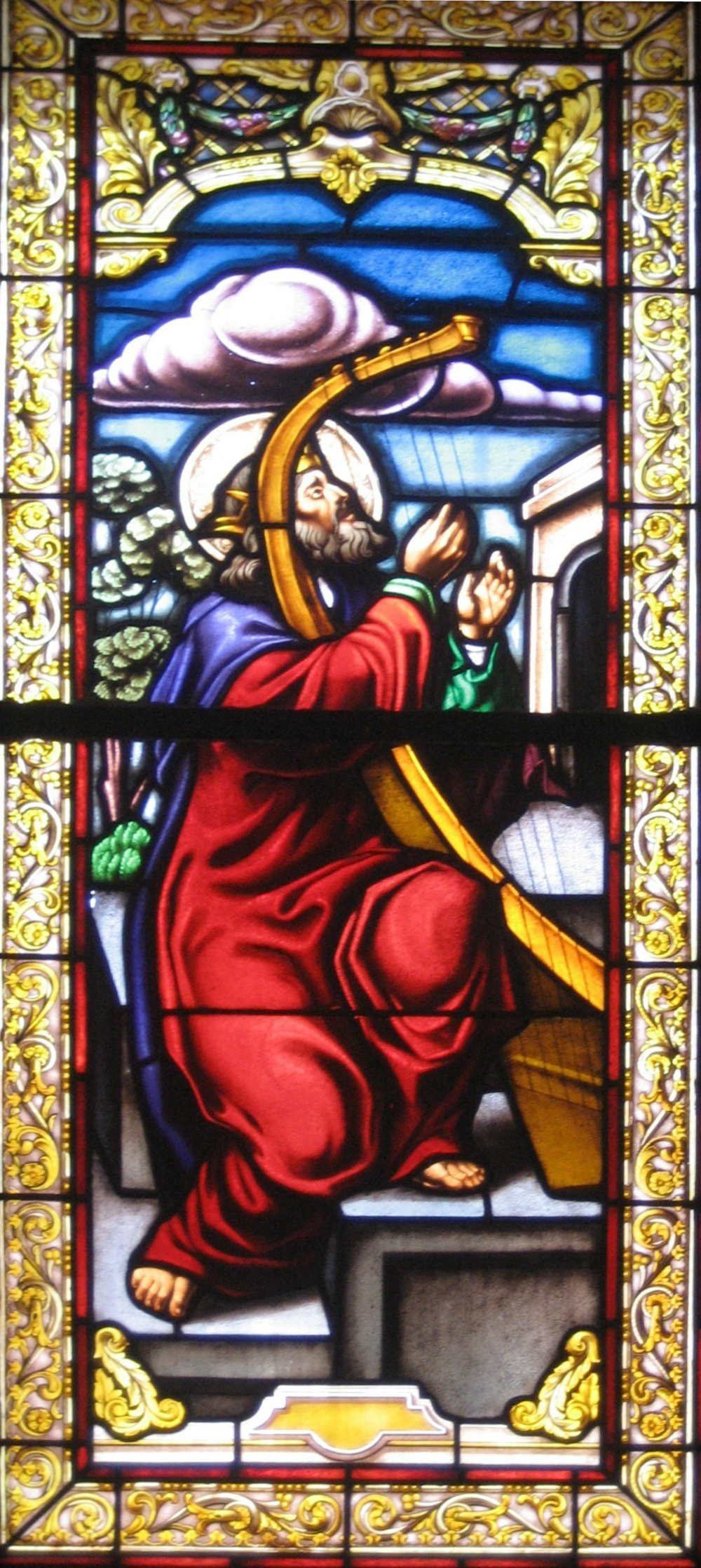 Stained glass window of King David, in the San José de Jatibonico Church sanctuary, in Jatibonico, Cuba.